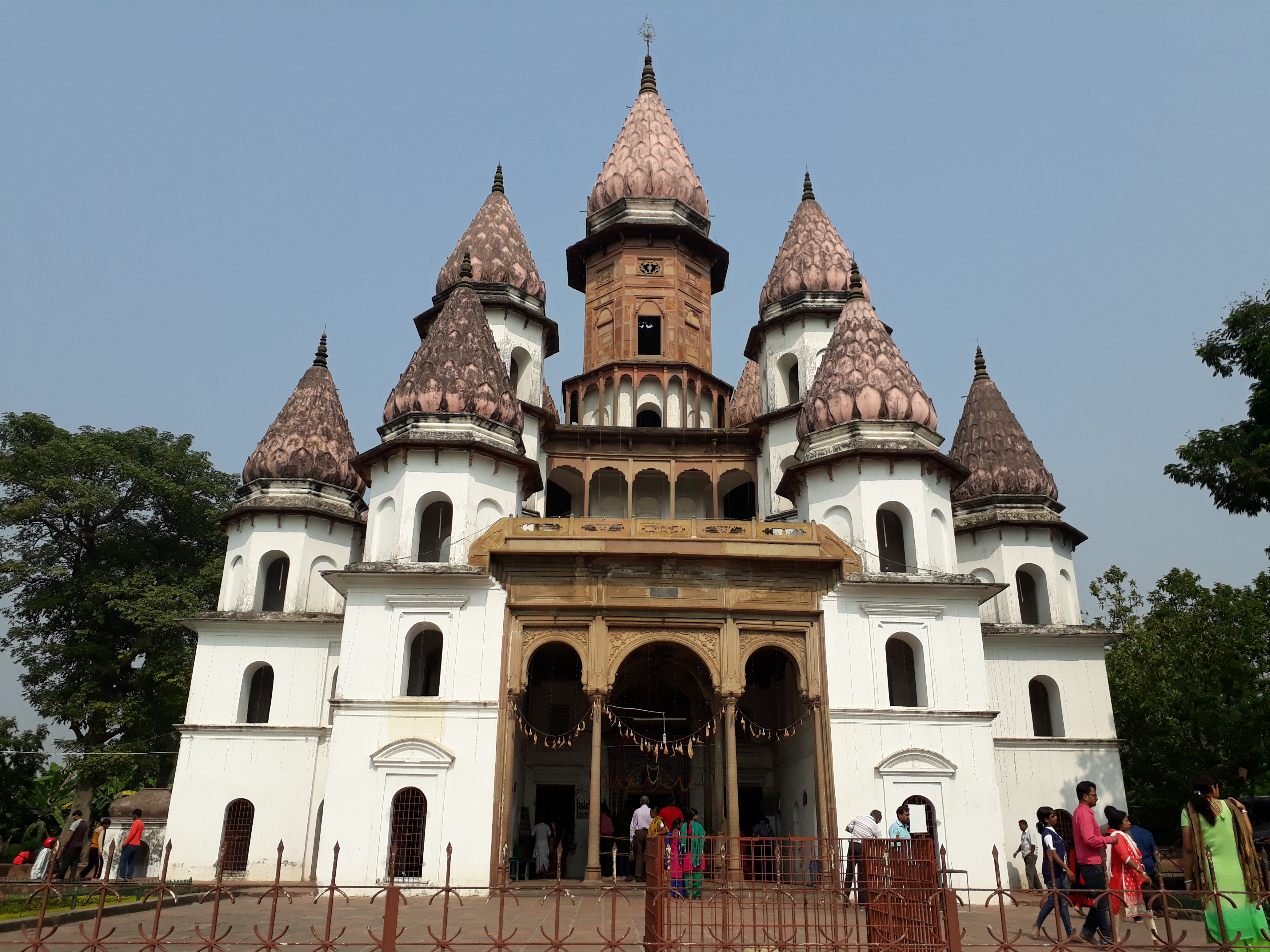 Hanseswari Temple , Tribeni